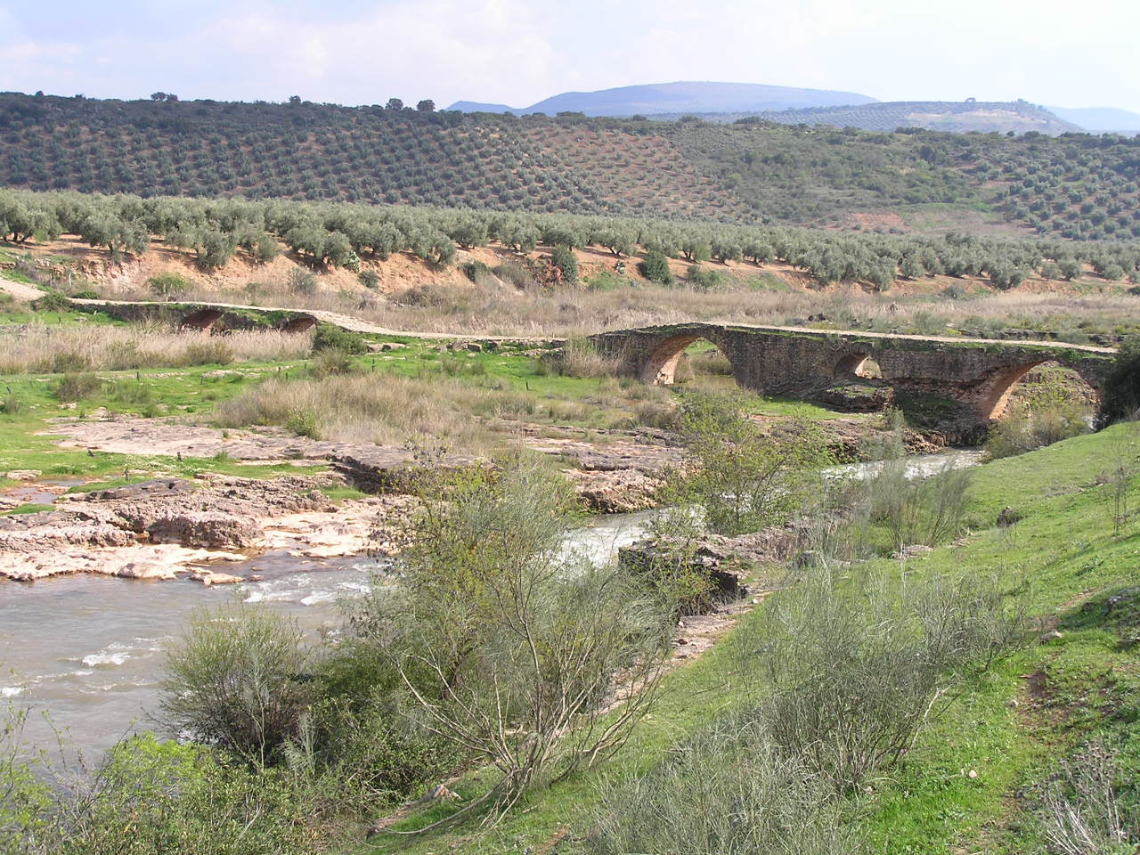 Puente Mocho